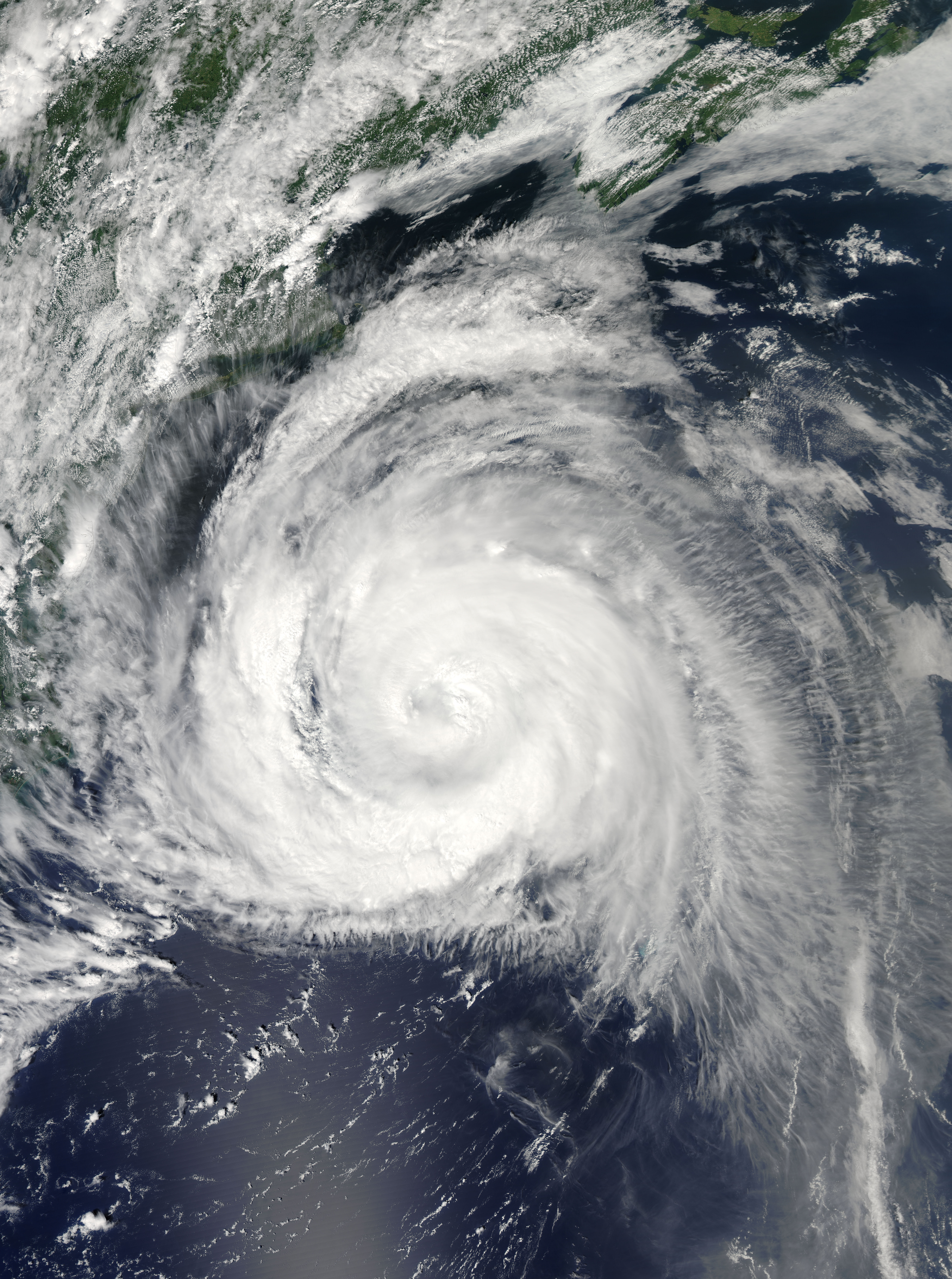 Hurricane Bill off the eastern coast of the United States